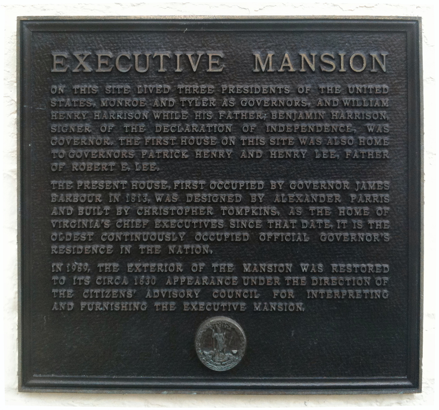 Virgina Executive Mansion Plaque